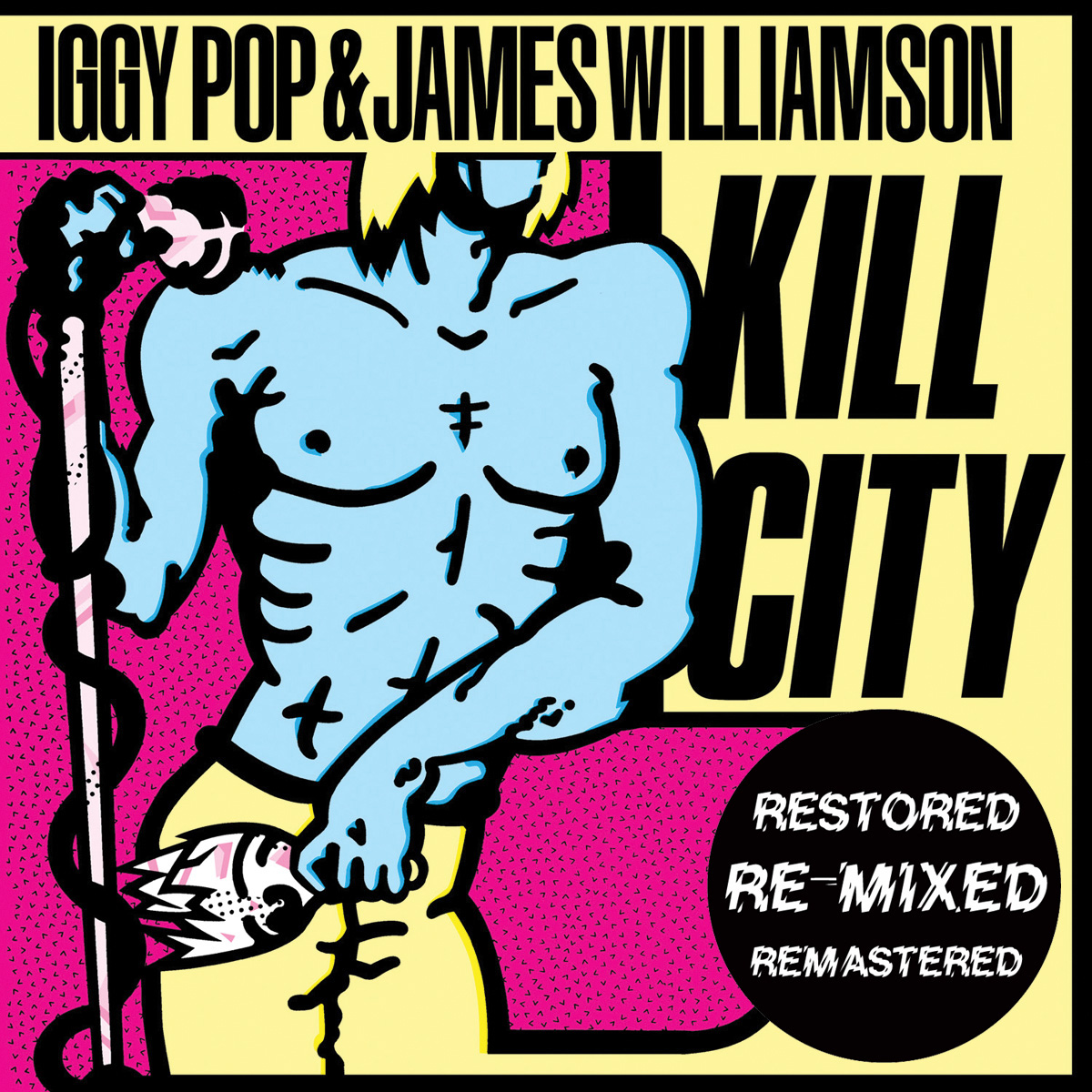 Album cover for Kill City